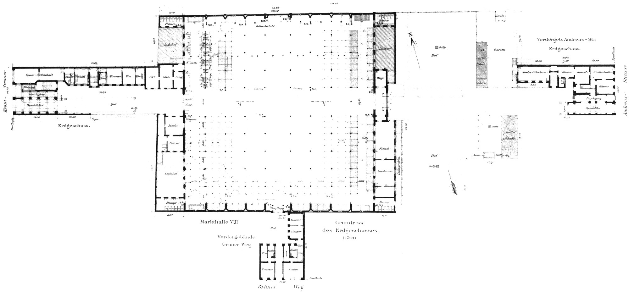 Berlin - market hall VIII, plan